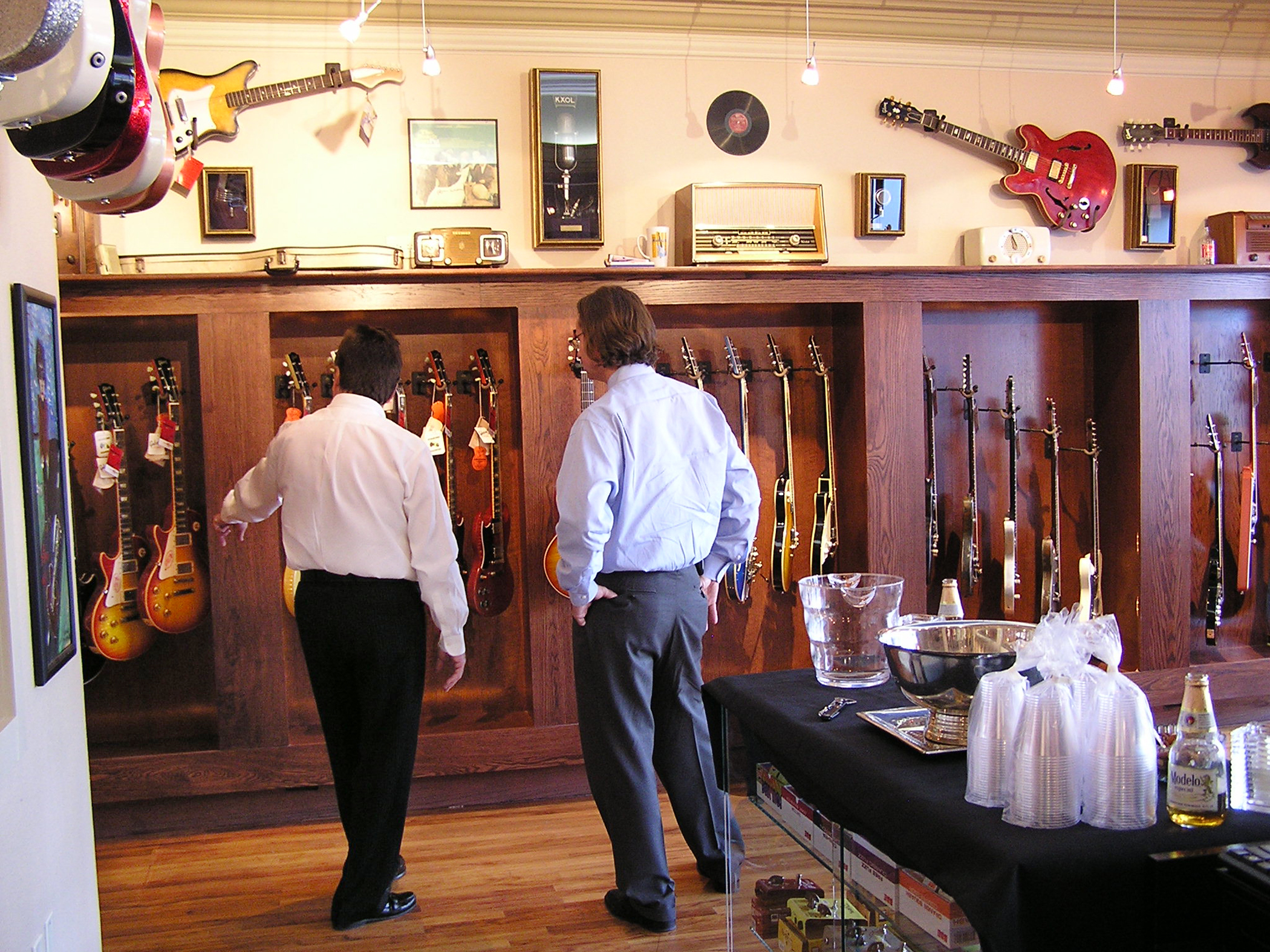 So many choices...